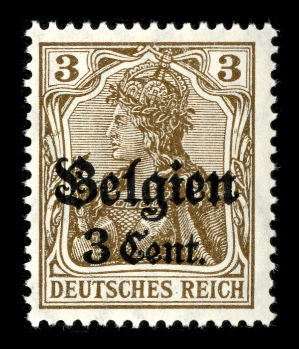 Stamp of Germany, WW1, overprint "Belgien 3 Cent", issue 1916 (Cent and not Centimes), Mi11.